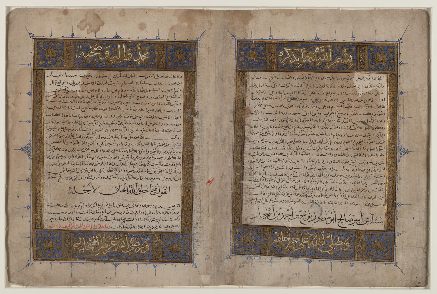 A manuscript of Tarikh-i Bal'ami, Bal'ami's Persian translation of al-Tabari's Tarikh.